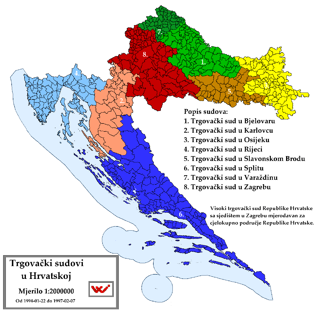 Commercial courts of the Republic of Croatia